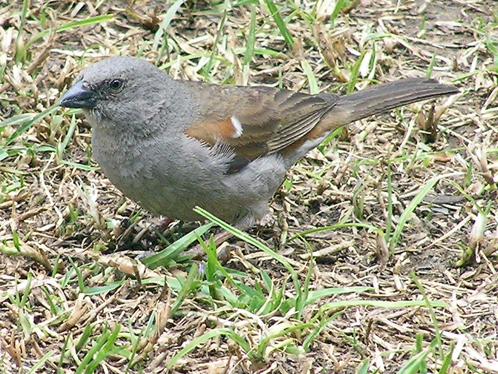 Male Swainson's sparrow in Debre Berhan, Ethiopia.